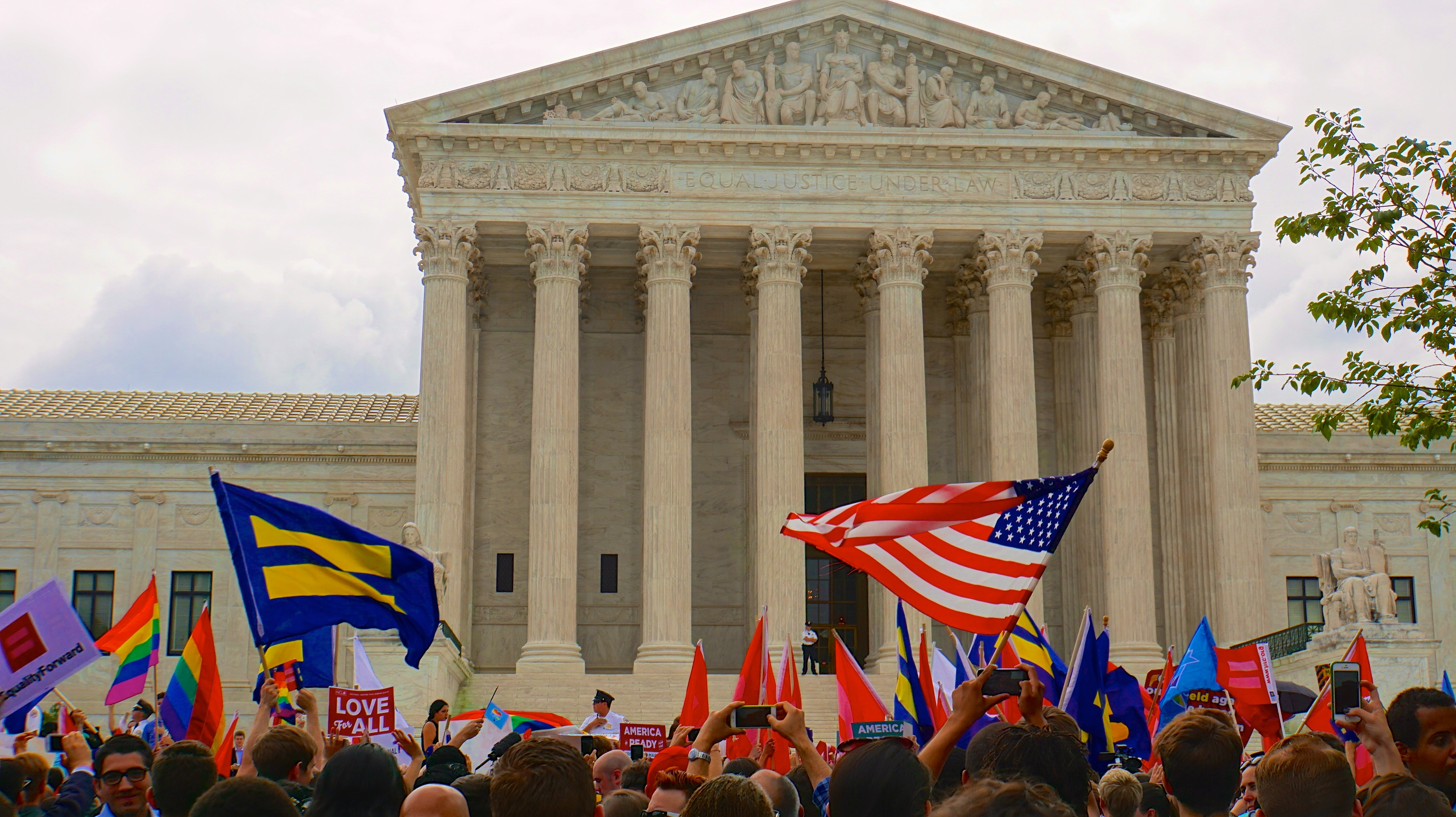 Supreme Court of the United States ends marriage discrimination - Obergefell vs Hodges